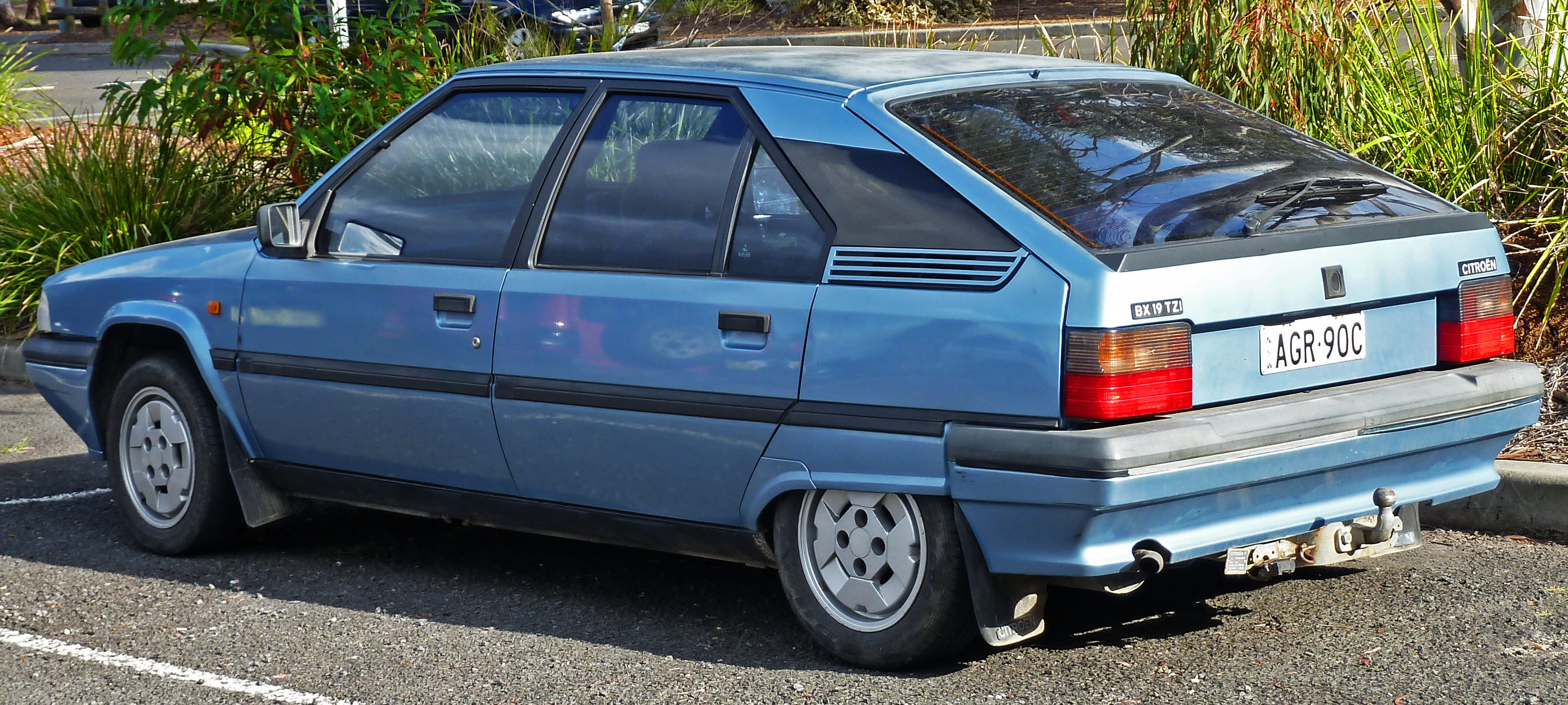 1990 Citroën BX 19TZI hatchback. Photographed in Sutherland, New South Wales, Australia.